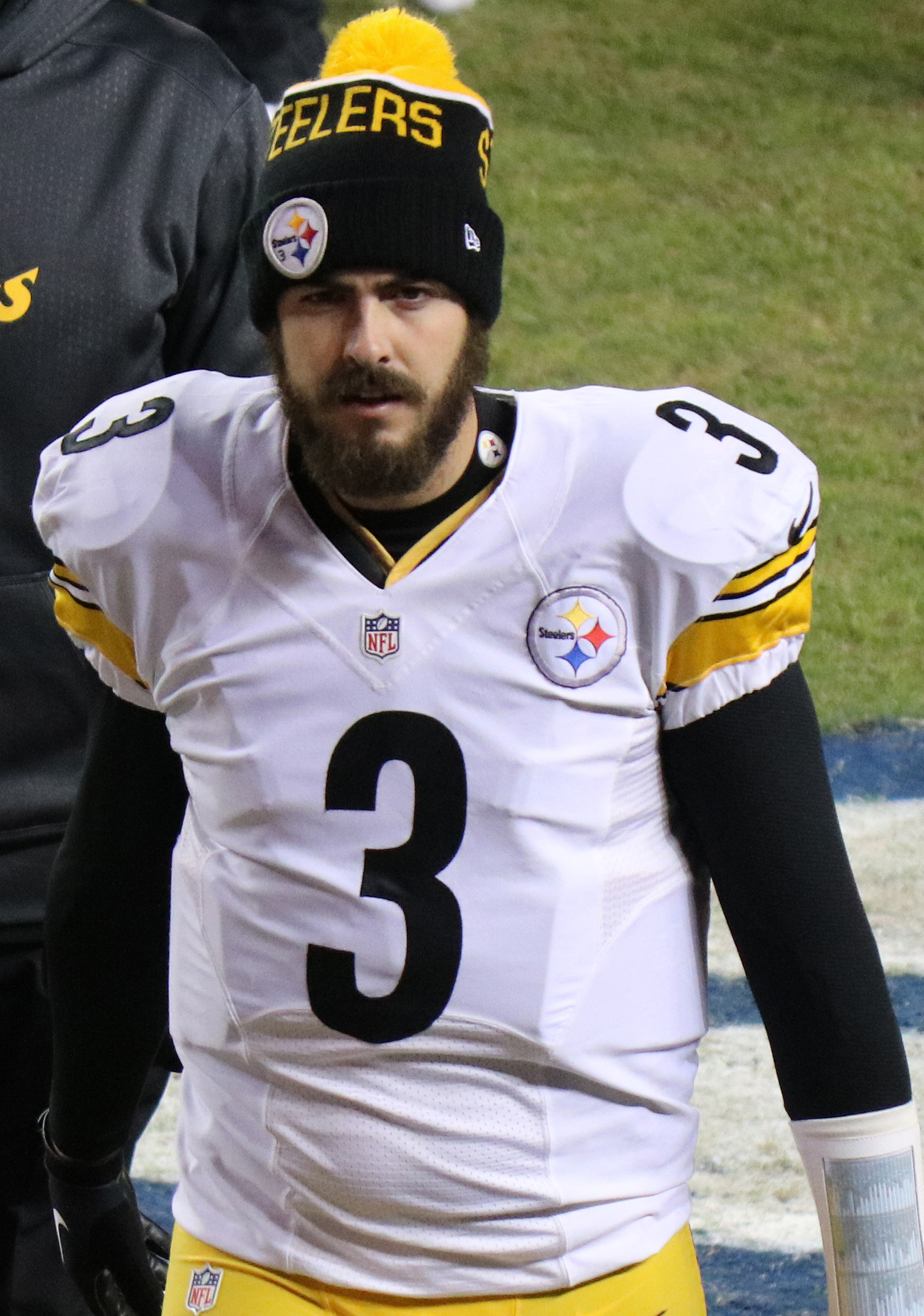 Landry Jones, a player on the National Football League.